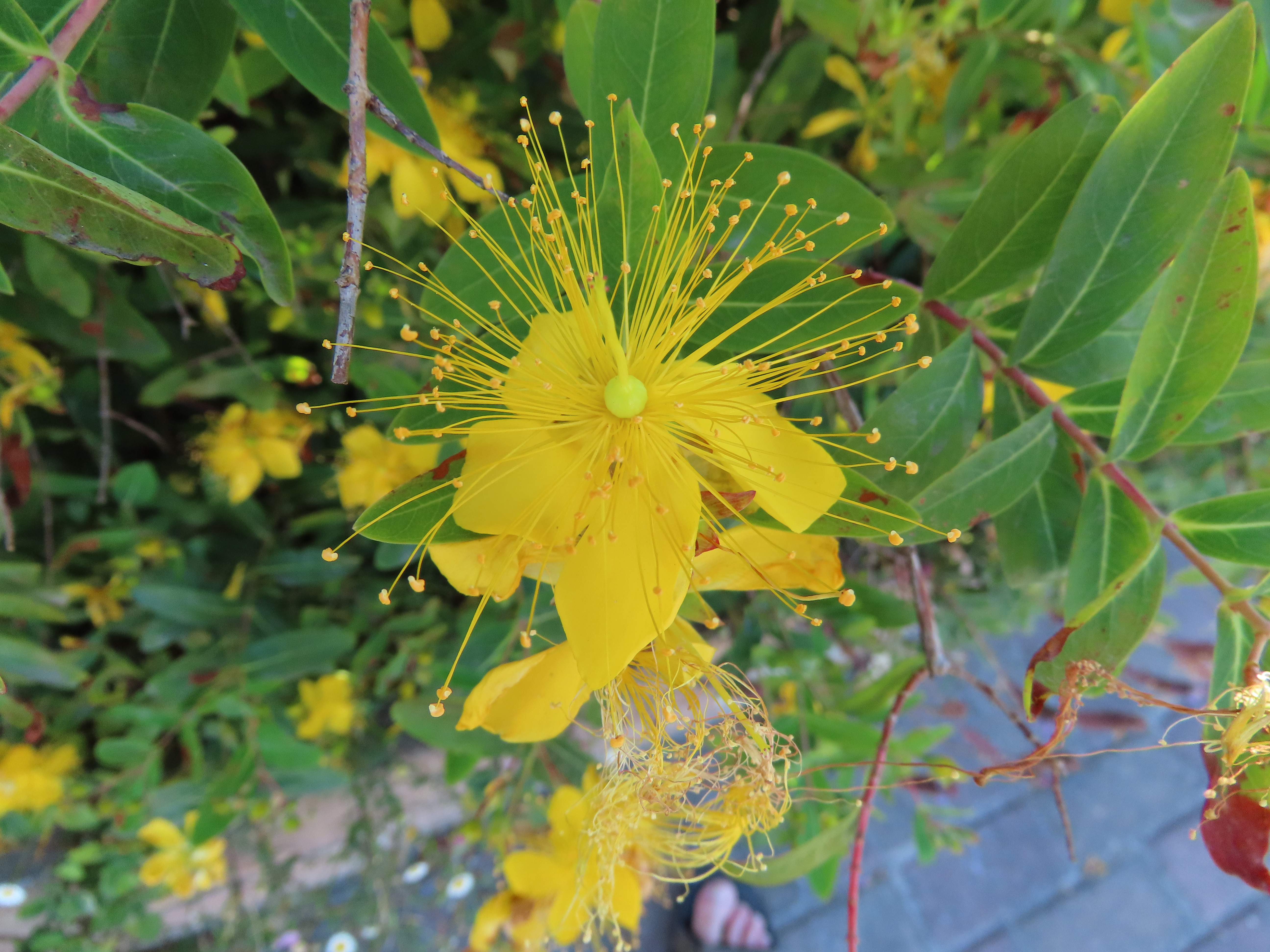 Unidentified Hypericum garden specimen selected as an illustration of indefinite stamens